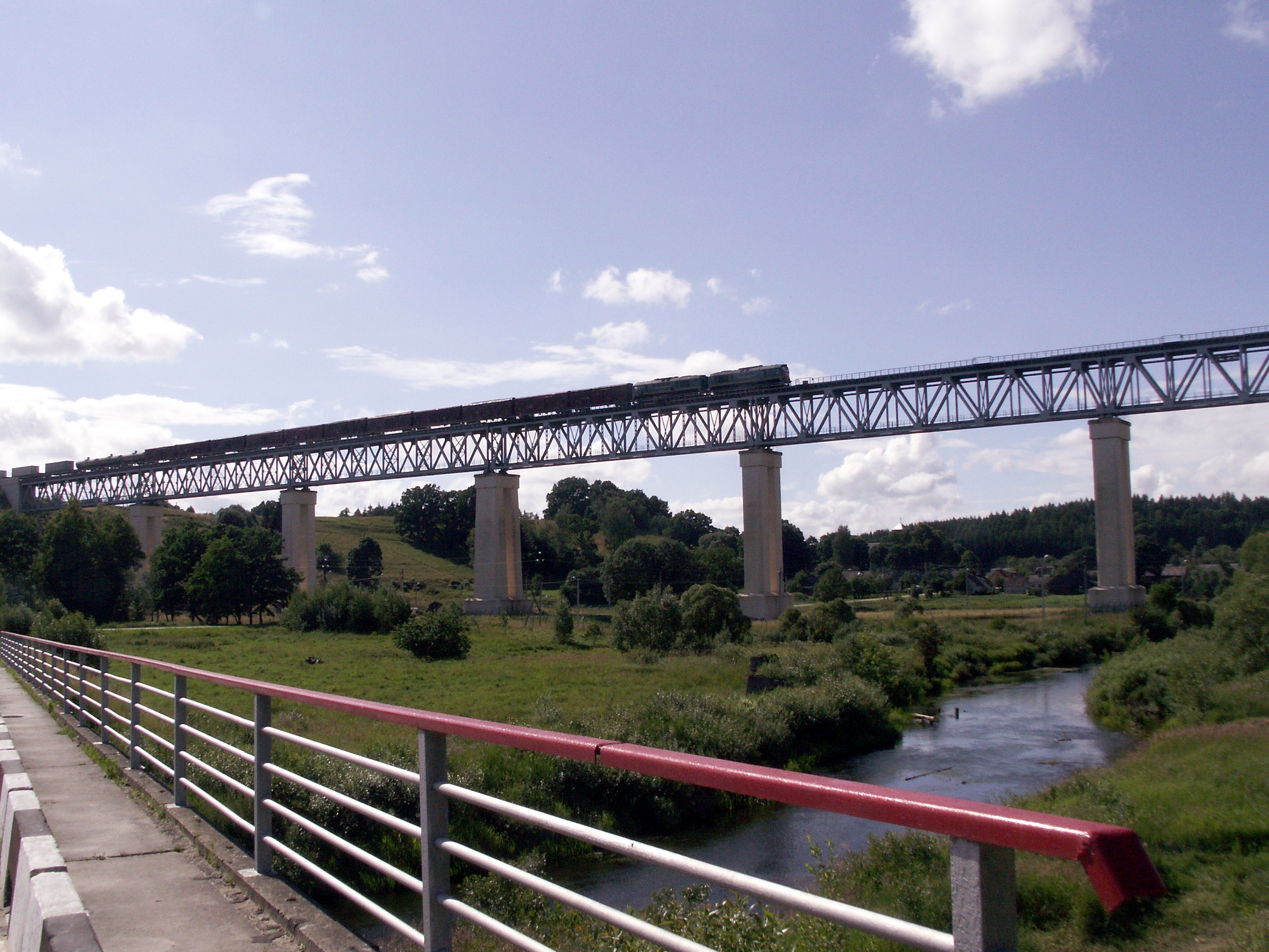 Lyduvėnai bridge